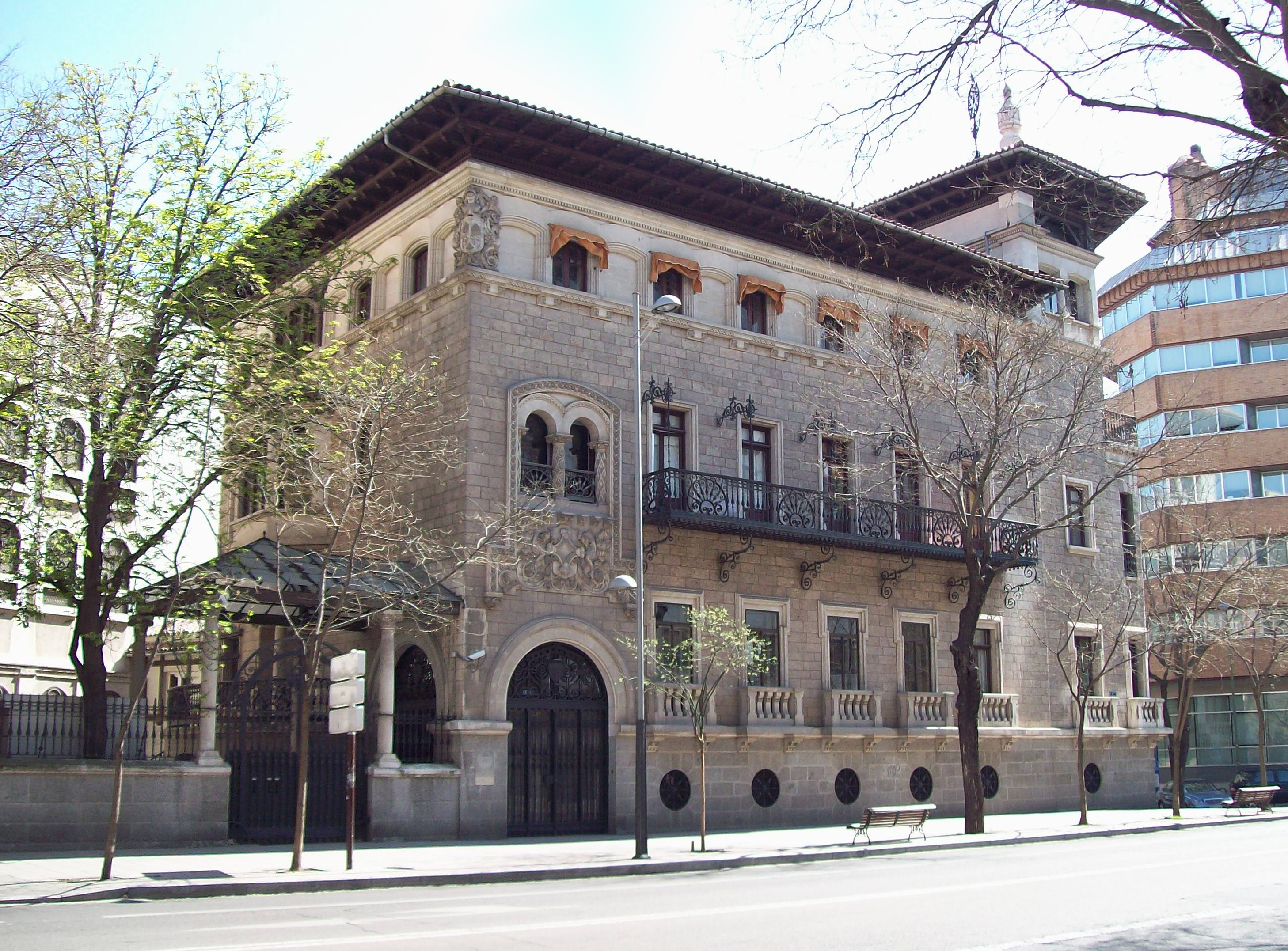 Casa Garay, a building at 42 Calle de Almagro (street, Chamberí district) in Madrid (Spain).